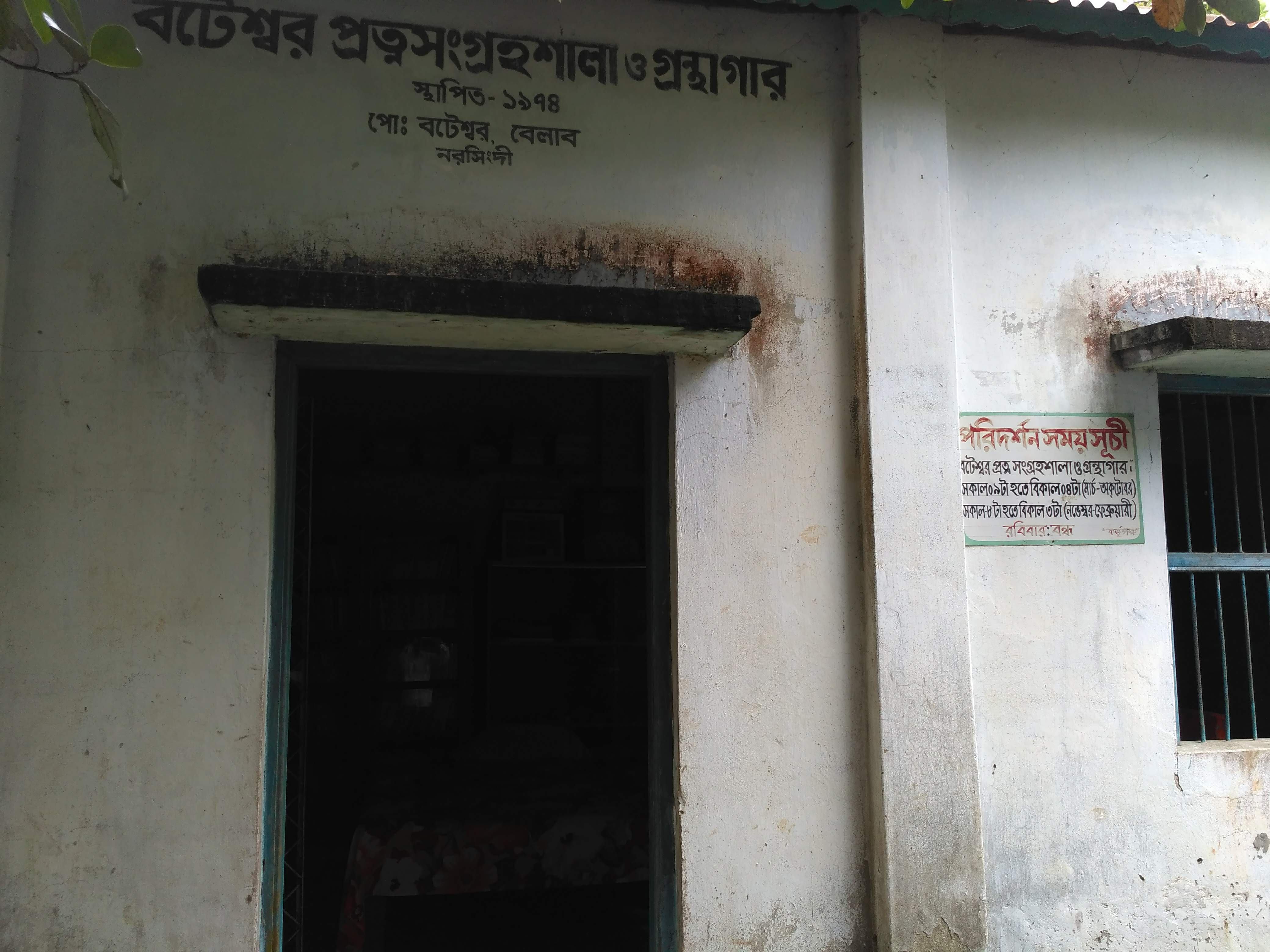 Bateshwar archaeological museum and library at Bateshwar, Narsingdi, Bangladesh.The museum was established in 1974 by Hanif Pathan, father of Habibullah Pathan.